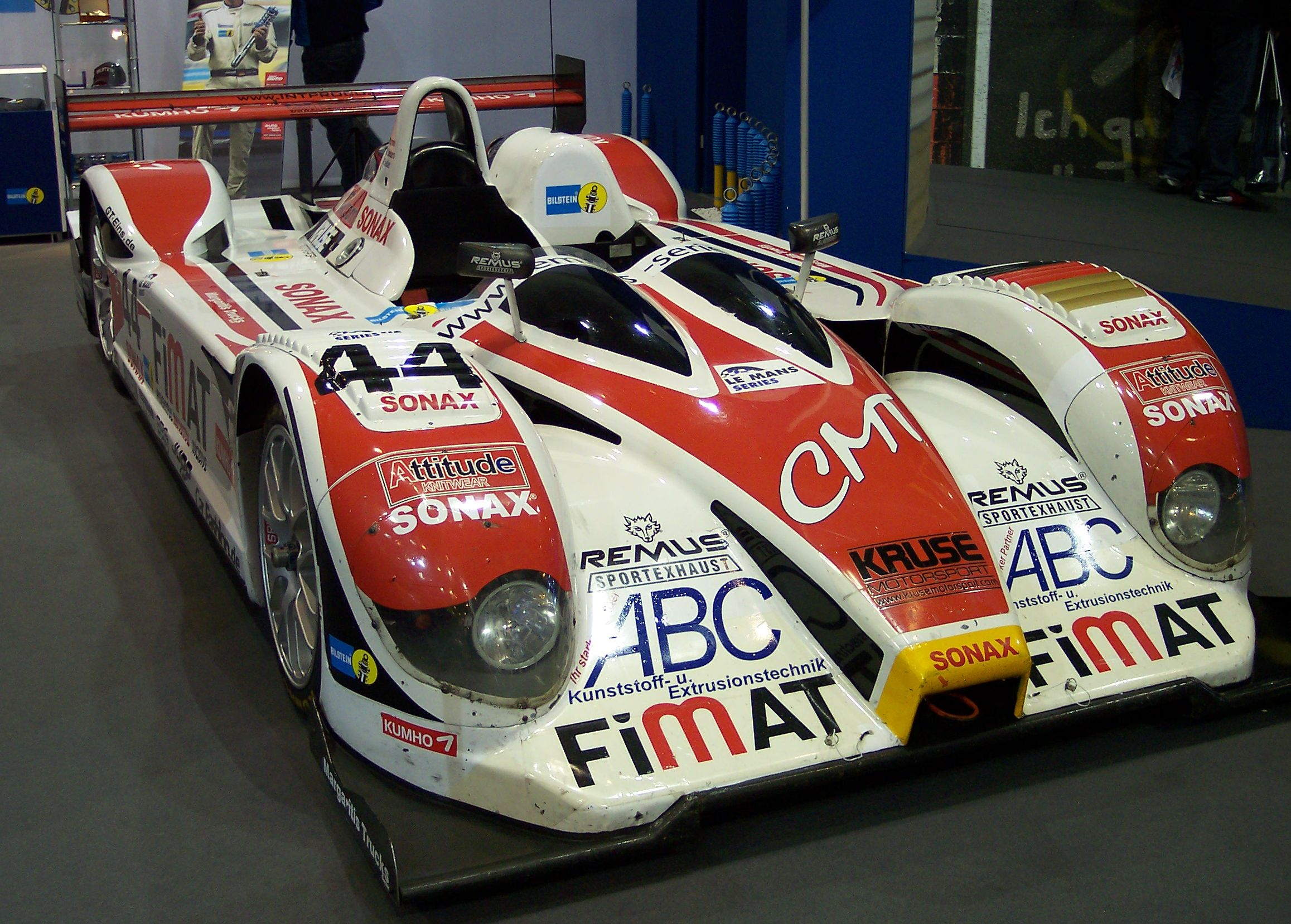 Courage C65 Judd on Essen Motor Show 2006